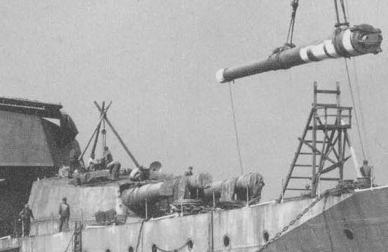 14 inch gun being installed (in the turret at left) on Japanese battlecruiser Haruna at the Kawasaki company at Kobe, Japan